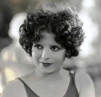 Scanned and cropped publicity shot from lost Clara Bow film Rough House Rosie (1927).